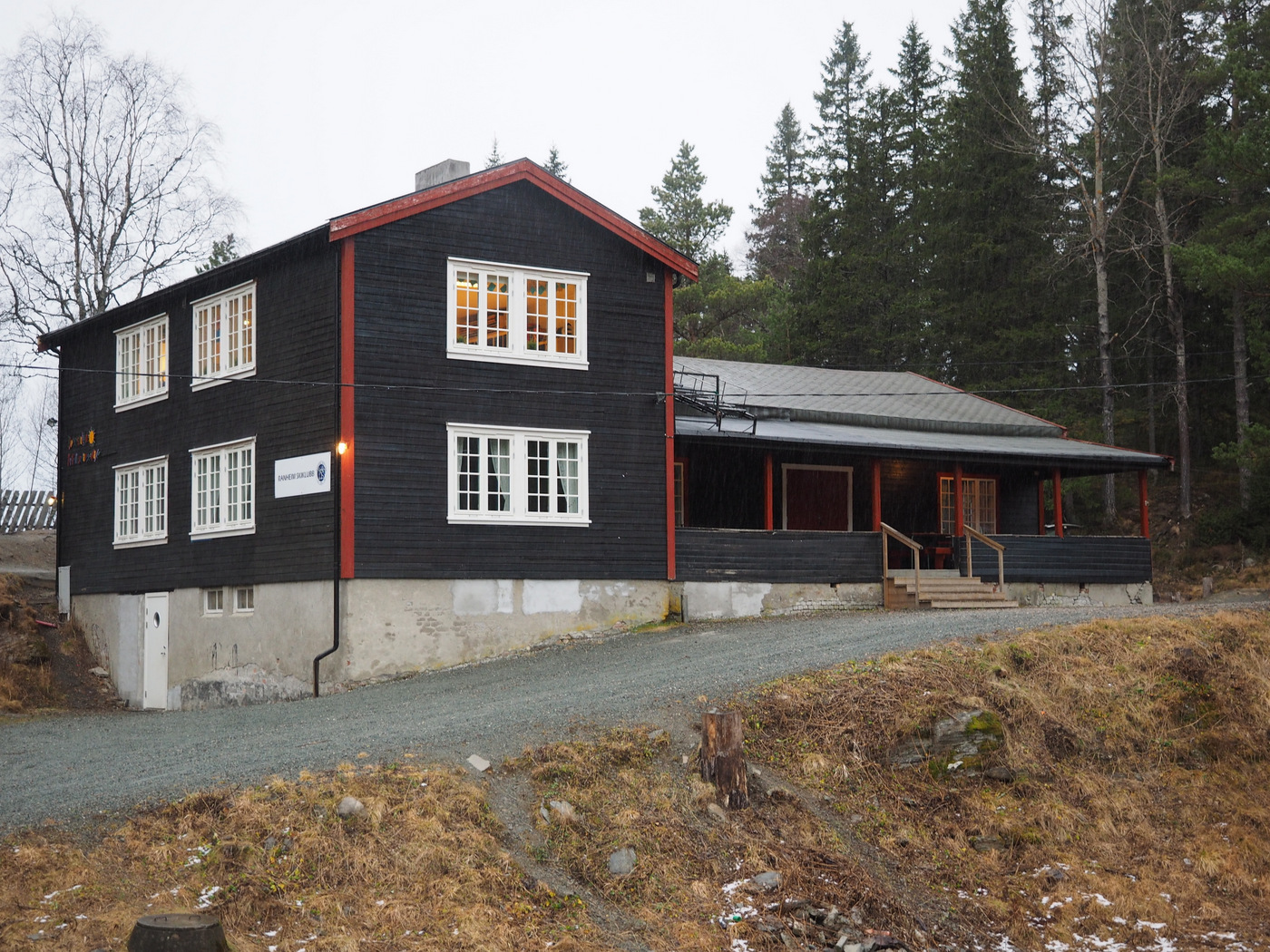 Club house Tjønnstuggu of Ranheim Skiklubb, Reppe, Ranheim